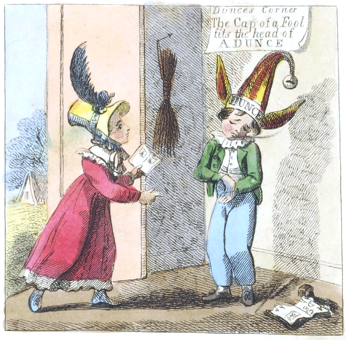 Illustration from a children’s book showing a “dunce” wearing a fool’s cap with bell and ass’s ears